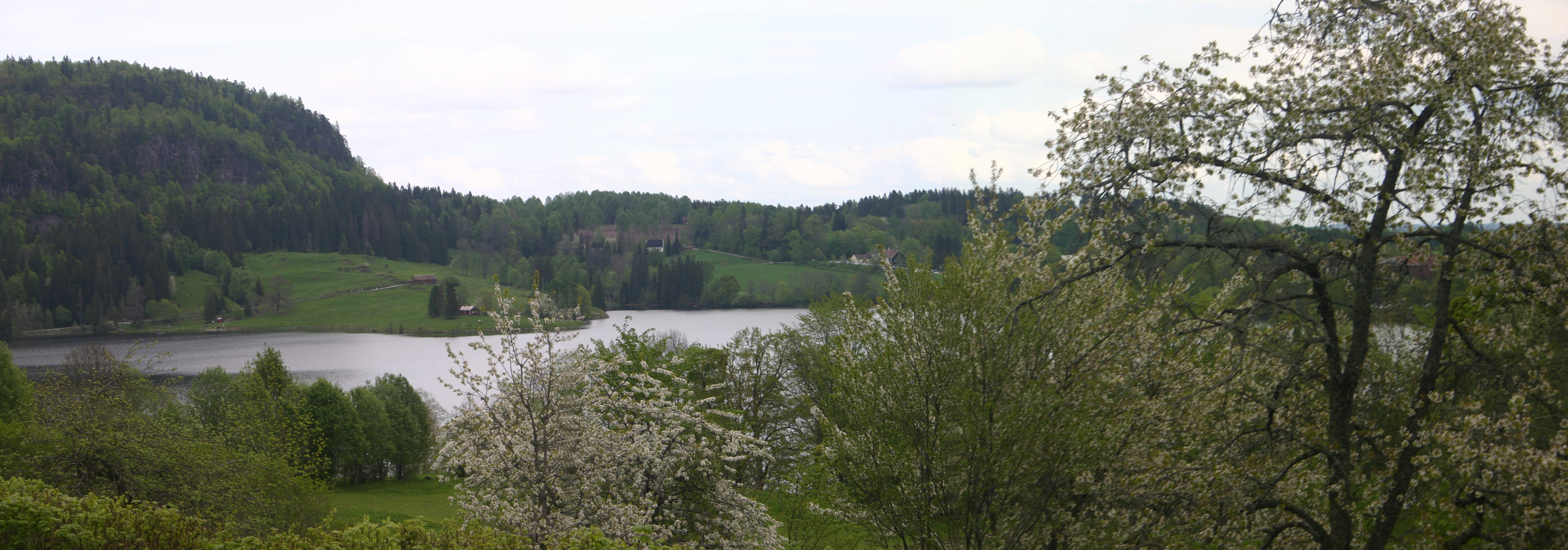 Semsvannet (Lake Sem) in Asker, Norway May 2010